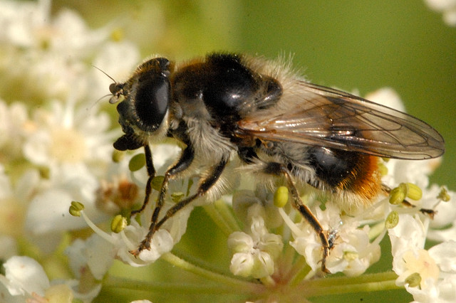 Cheilosia illustrata from Commanster, Belgian High Ardennes .